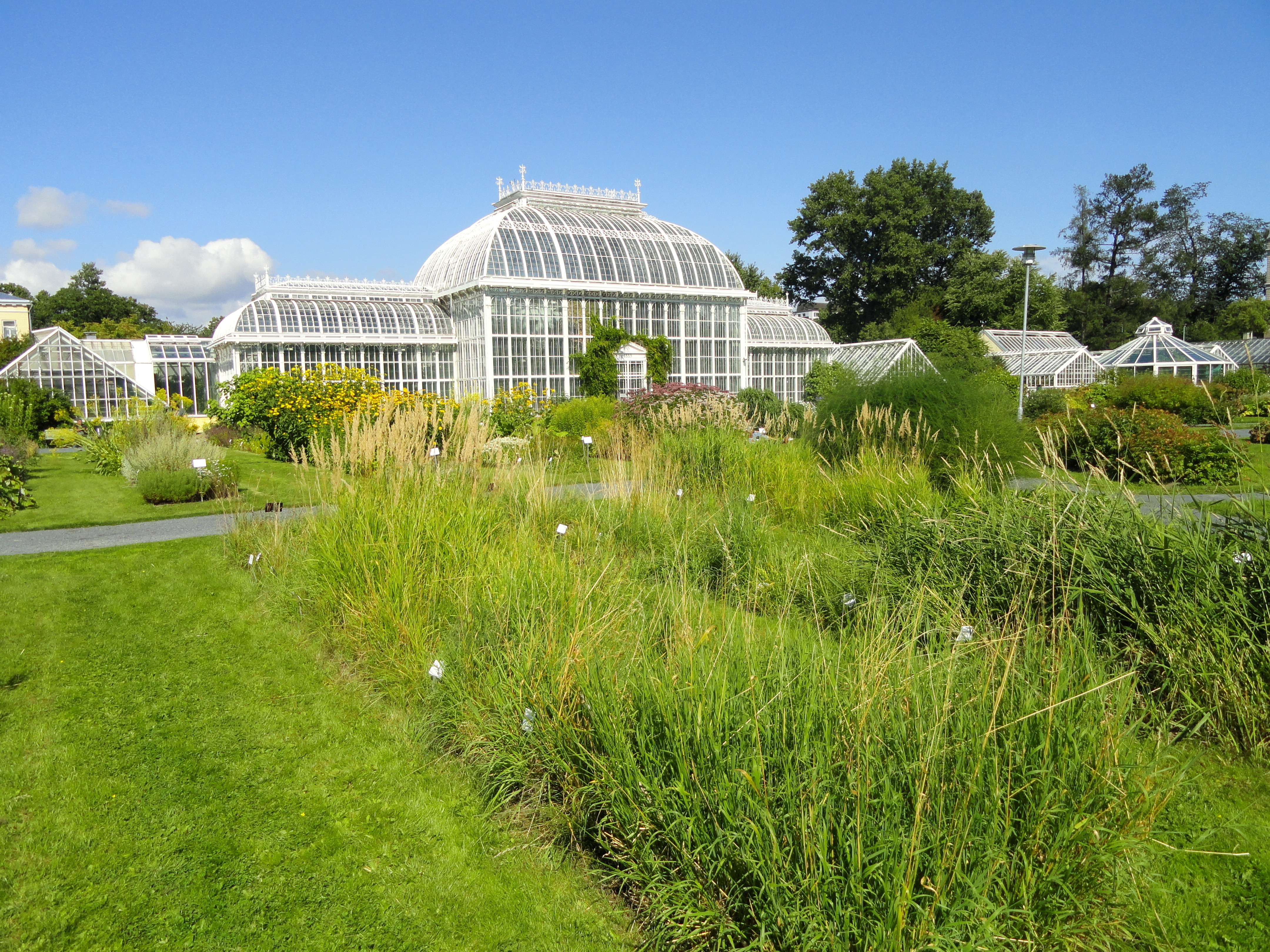 The University of Helsinki Botanical Garden at Kaisaniemi